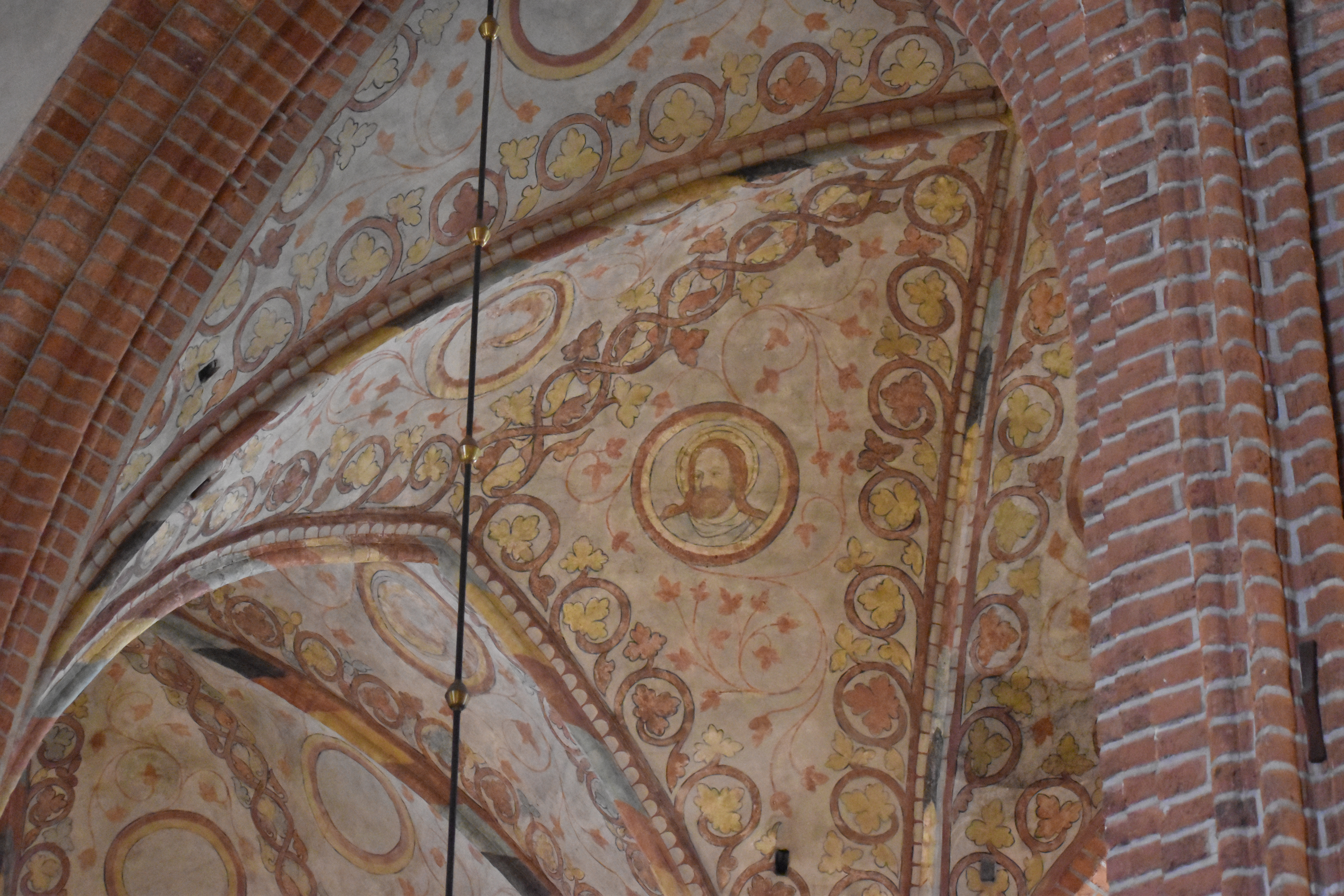 Stockholm Cathedral in August 2019.